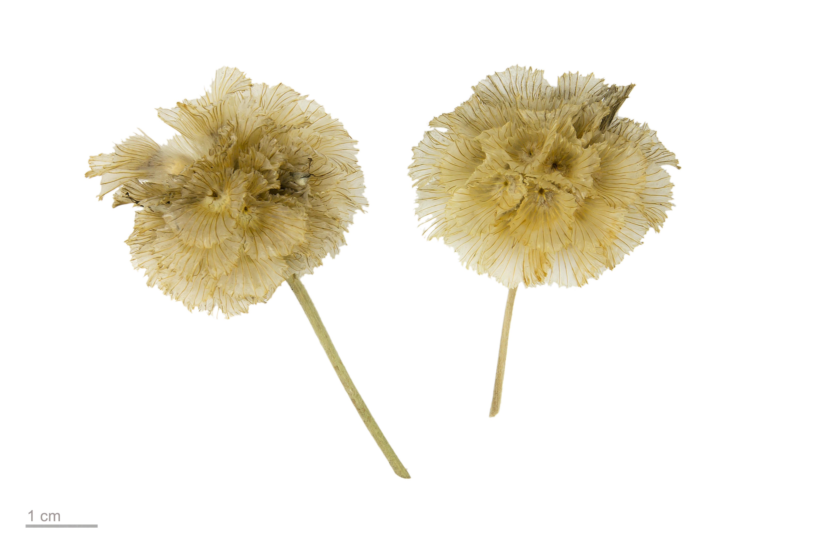 Lomelosia cretica, , seeds